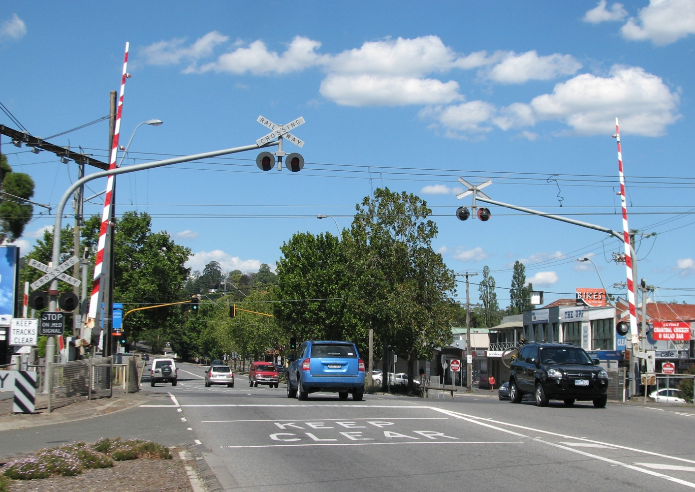 Railway Crossing on Maroondah Highway, Lilydale, Victoria, Australia